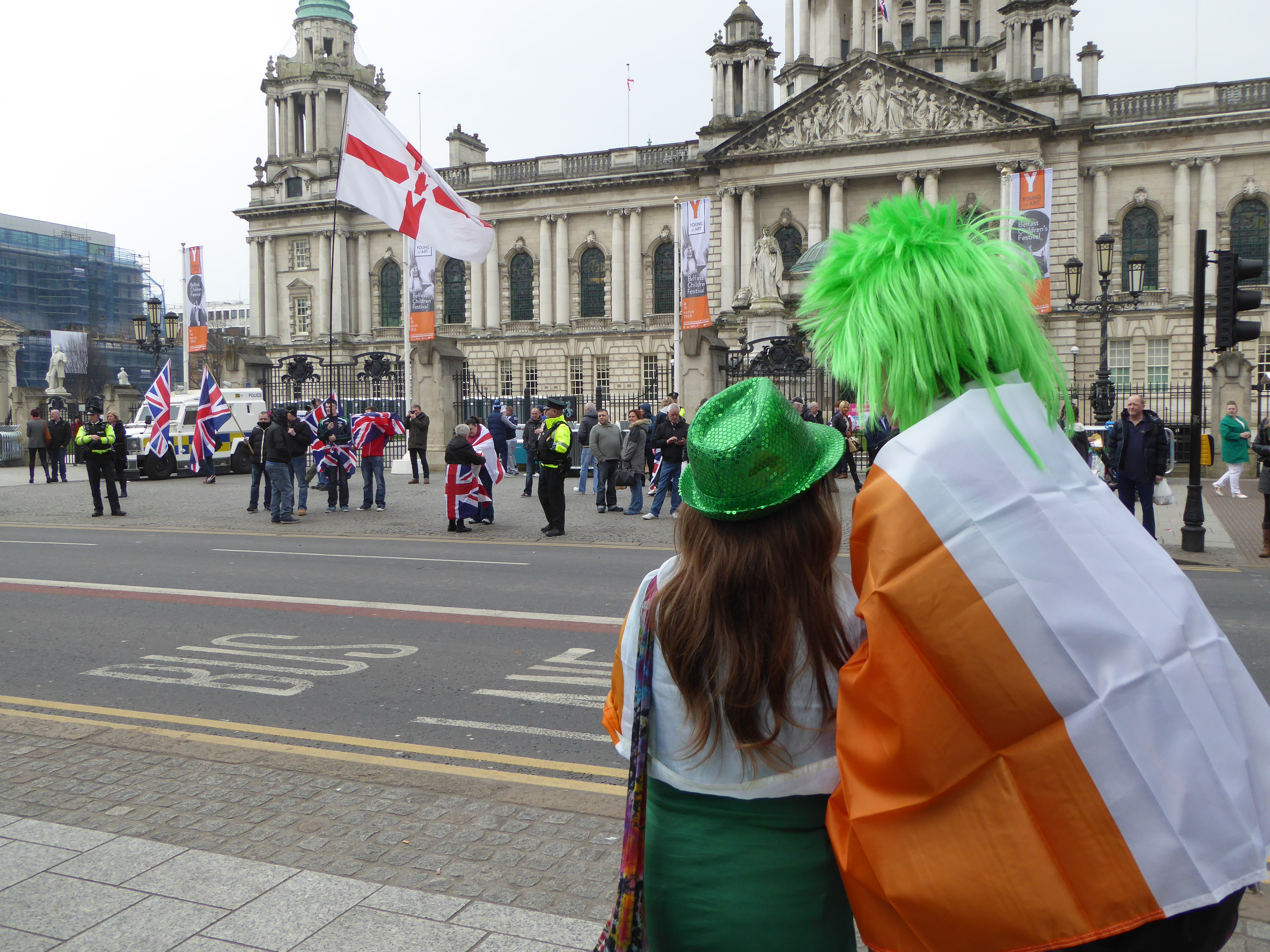 Within 40 minutes of the St Patrick's Day Parade leaving Belfast City Hall, Loyalist flag protesters appear at the same City Hall. Belfast City Hall, Belfast, Northern Ireland, March 2015